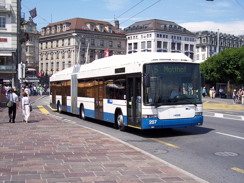 Luzern's newest articulated trolleybuses are of the Swisstrolley model built by Swiss manufacturer Hess. This is number 207 on the bridge across the river Reuss in central Luzern.